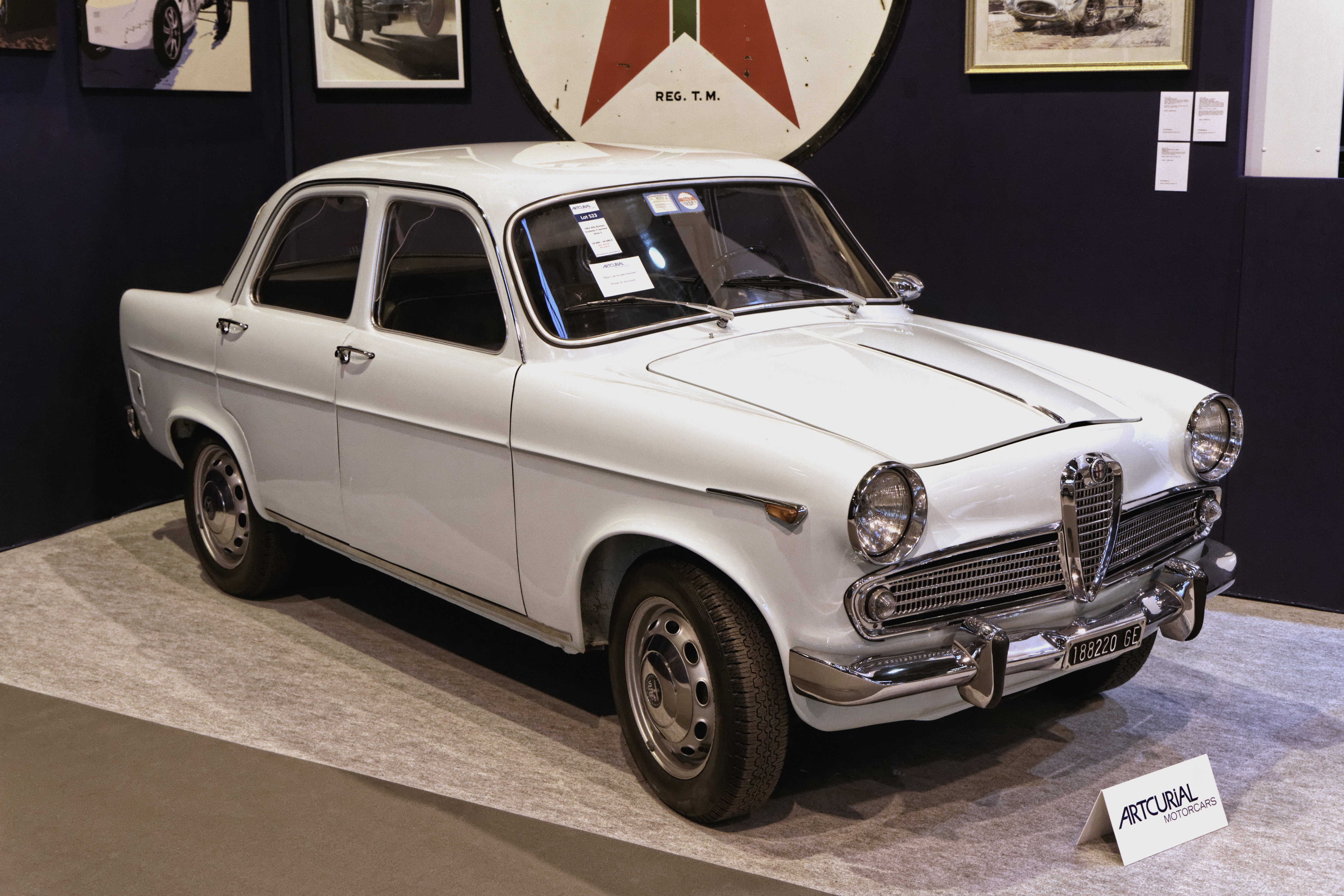 A 1963 Alfa Romeo Giulietta Berlina T.I. of the third series. At the Rétromobile exhibition in Paris, 2014